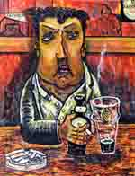 Image of Brendan Behan by London Irish artist Brian Whelan 2012